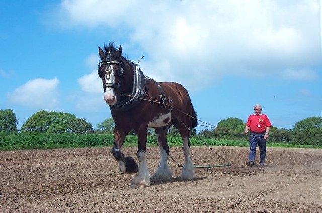 Dyfed Shire Horse Farm. The farm has a number of attractions for all ages ranging from an antique corner and crazy golf to quad bikes and pony rides. The main attraction though are the displays put on by the huge Shire Horses.